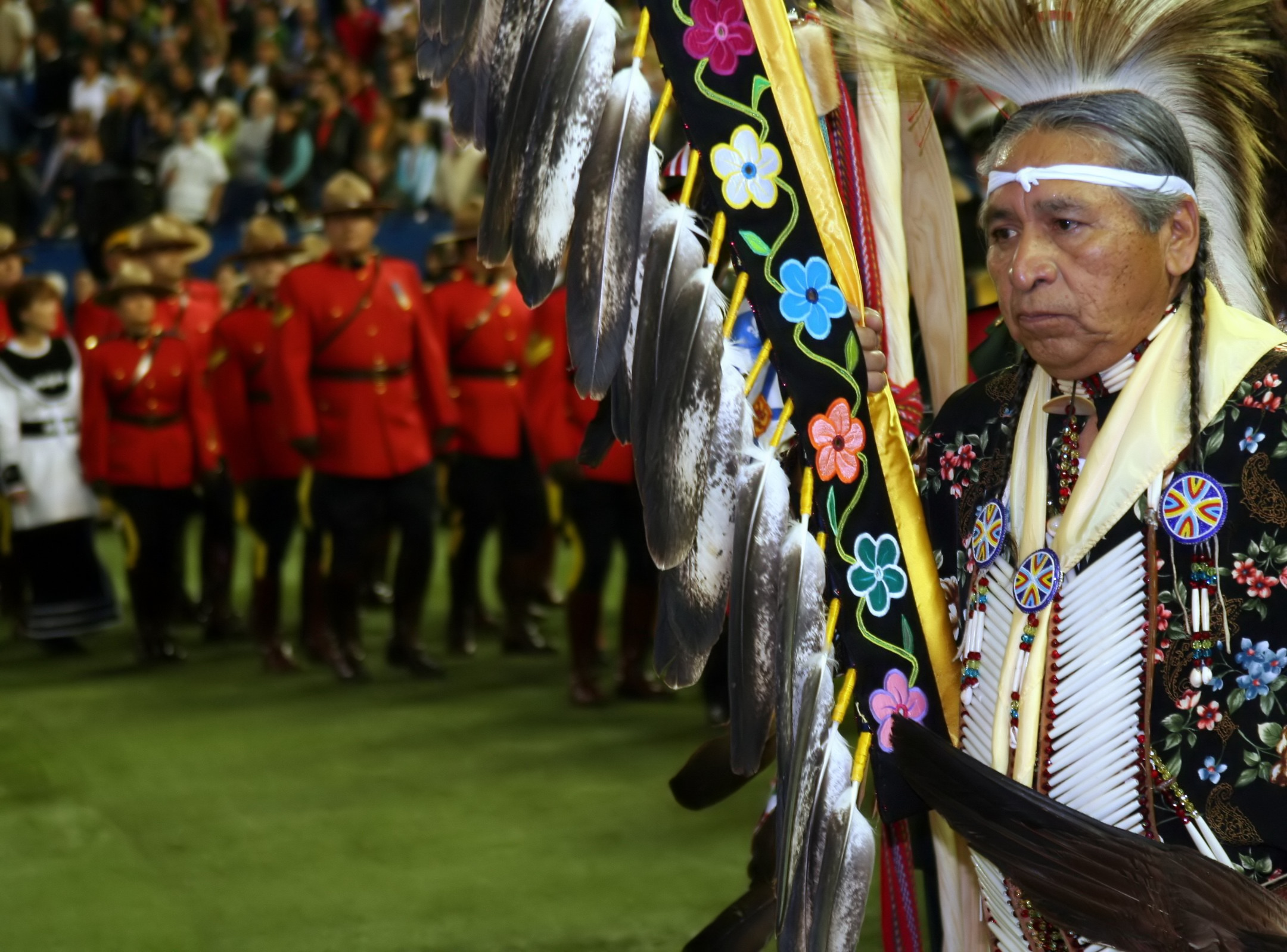 Aboriginal leader at the 13th Annual Canadian Aboriginal Festival.